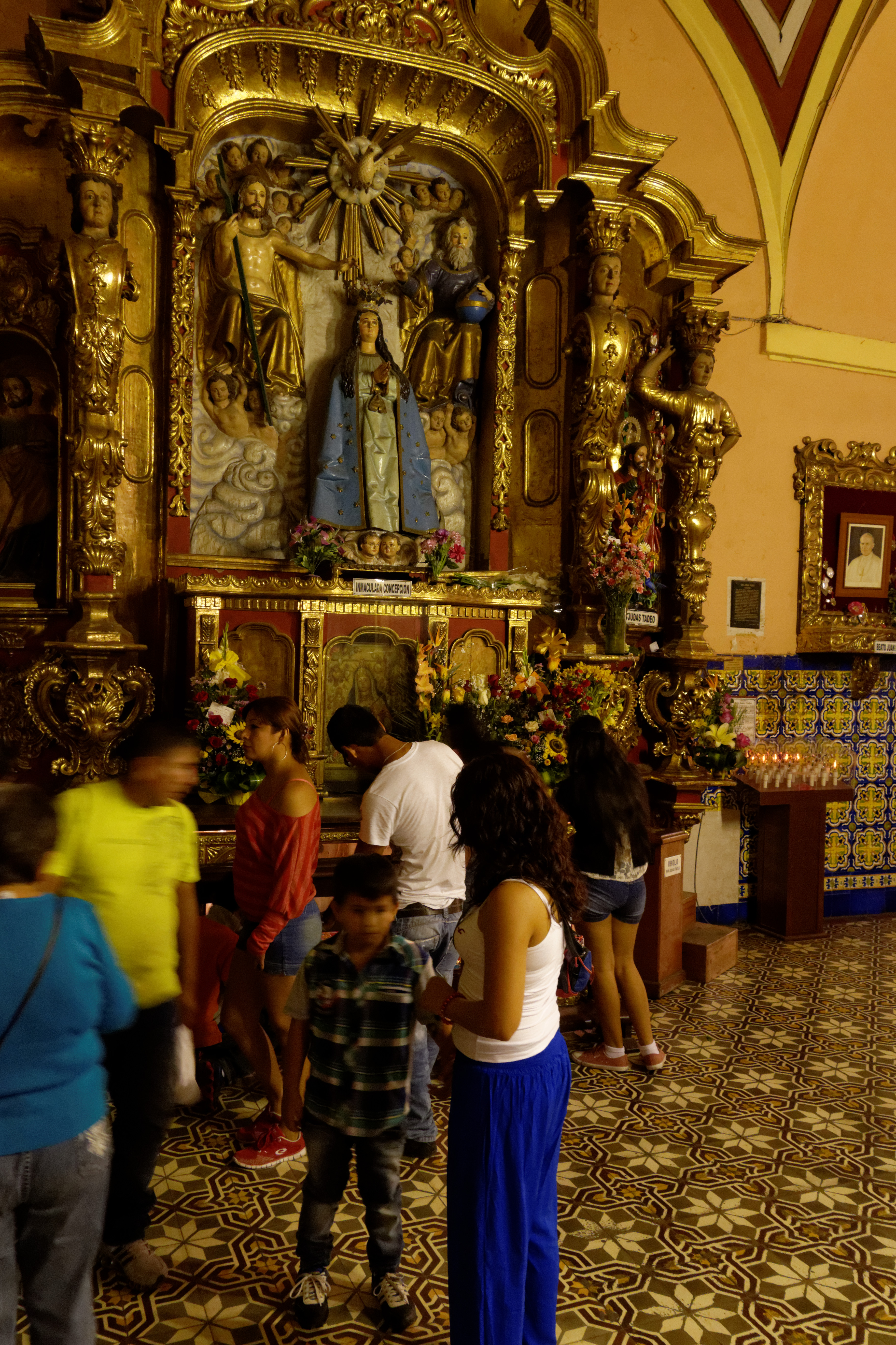 Basilica of Nuestra Señora de la Merced